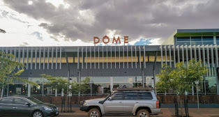 Image of Dome Cafe in Newman Western Australia.